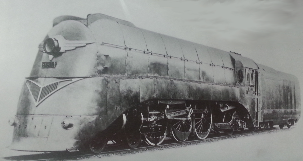 Builder's photo of South Manchuria Railway locomotive Pashina 981.